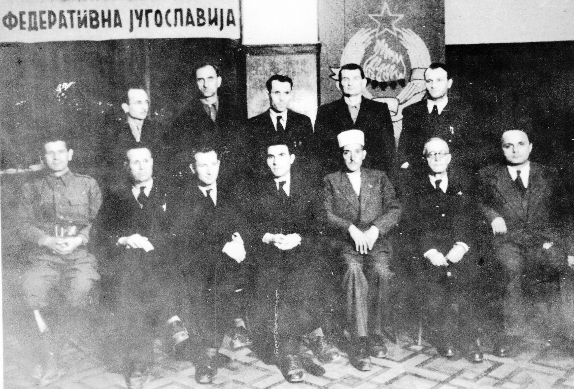 First Macedonian government declared at ASNOM conference. The negative is kept in the State Archives of the Republic of Macedonia, a gift from Lazar Kolishevski. This media file is produced by Wikipedian in Residence in Category:Wikipedian in Residence at DARM in 2016.